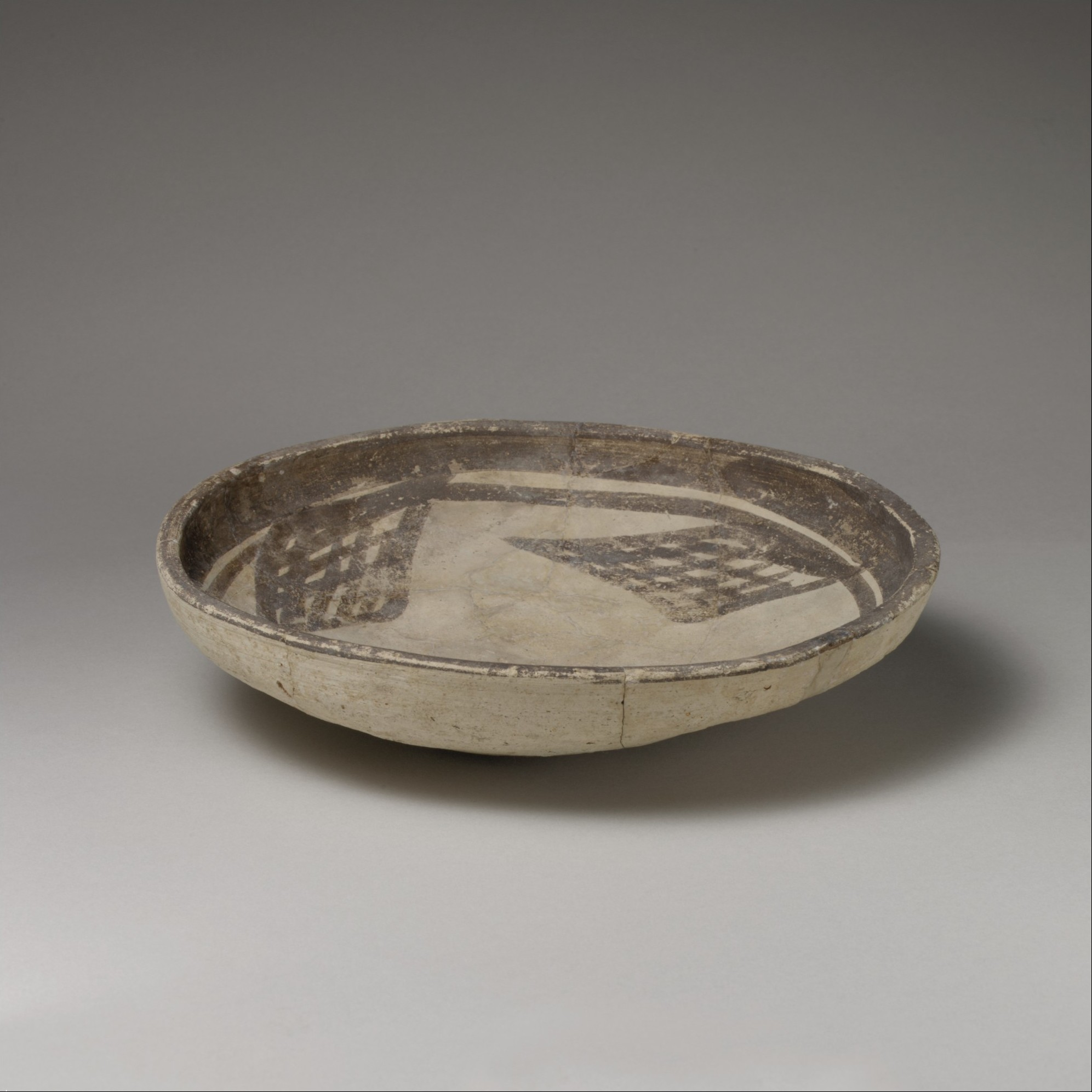 Ubaid; Bowl; Ceramics-Vessels